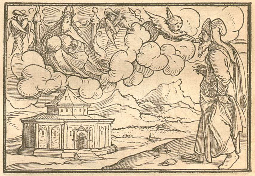 Woodcut of Isaiah from "Historiarum veteris Testamenti Icones ad vivum expressae" (Illustrations of stories from the Old Testament), Lyon, 1538. The Latin text reads "Isaias videt gloriam Dei" (Isaiah sees the glory of God).